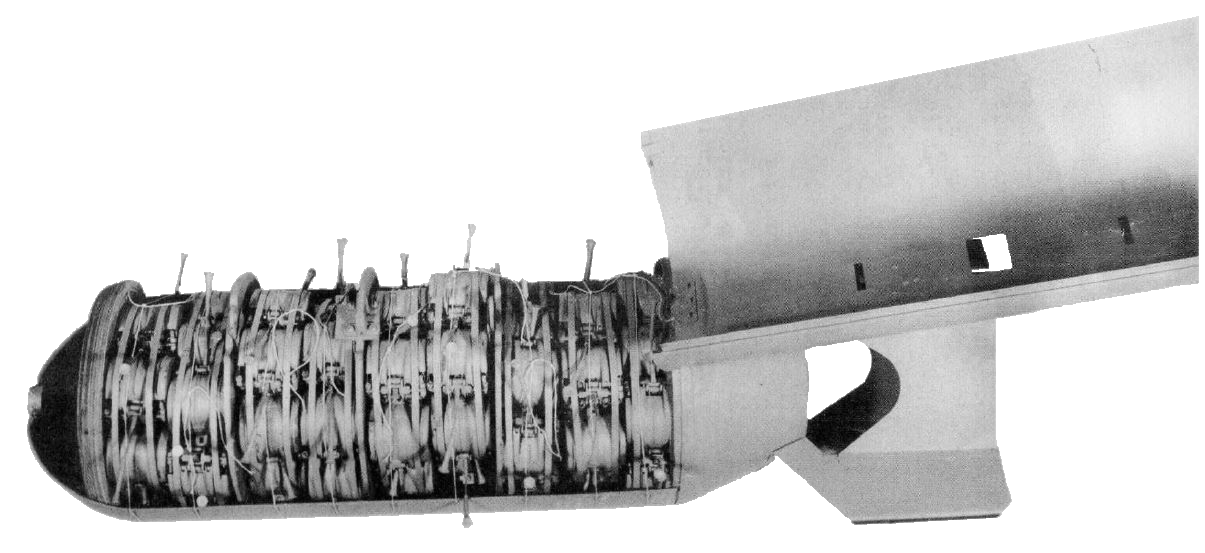 World War II era US cluster bomb, containg M83 submunitions (copies of German Butterfly Bomb)